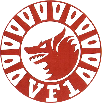 Insignia of the U.S. Navy Fighter Squadron 1 (VF-1) "Wolfpack".